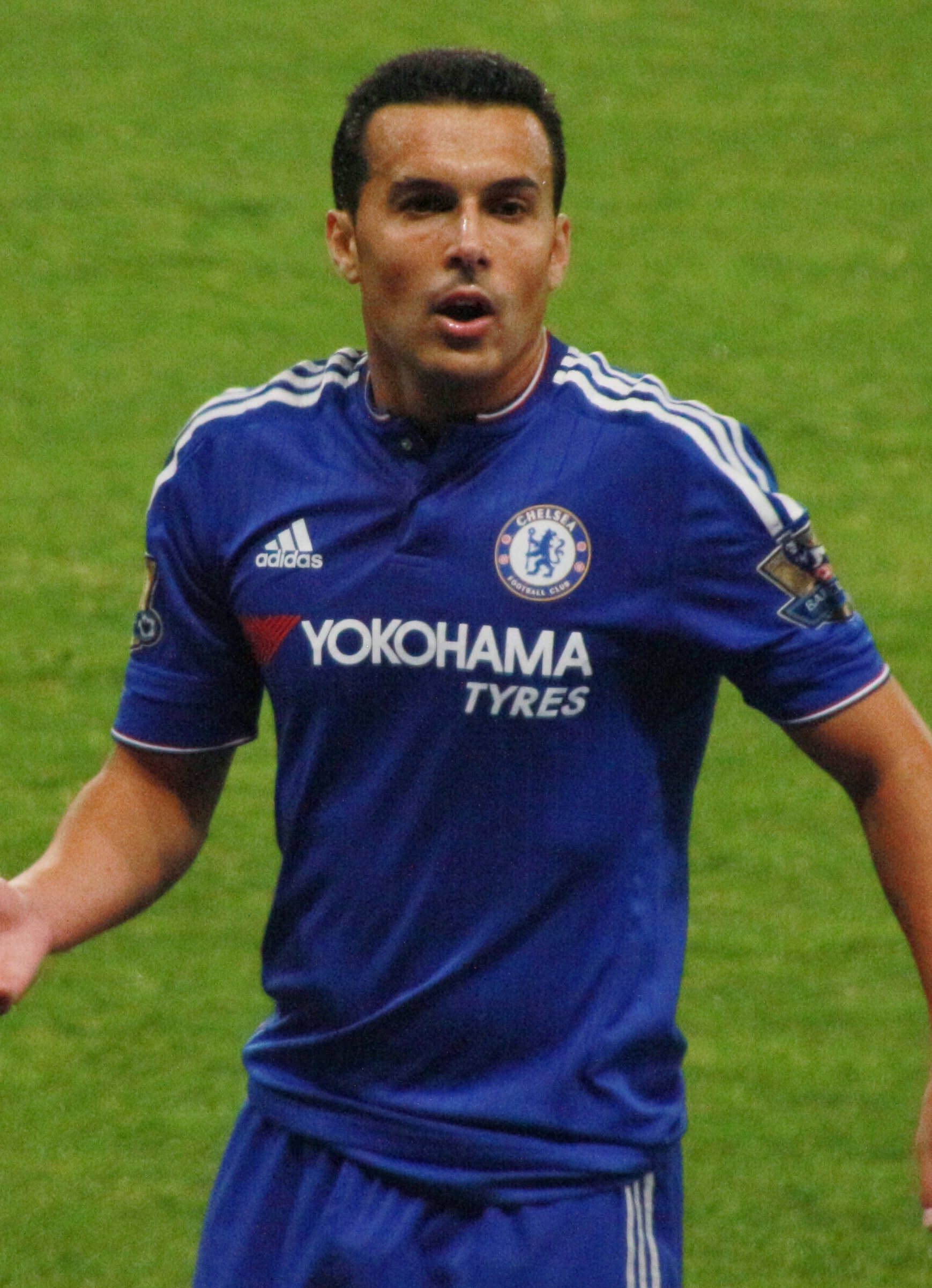 Chelsea 1 Southampton 3